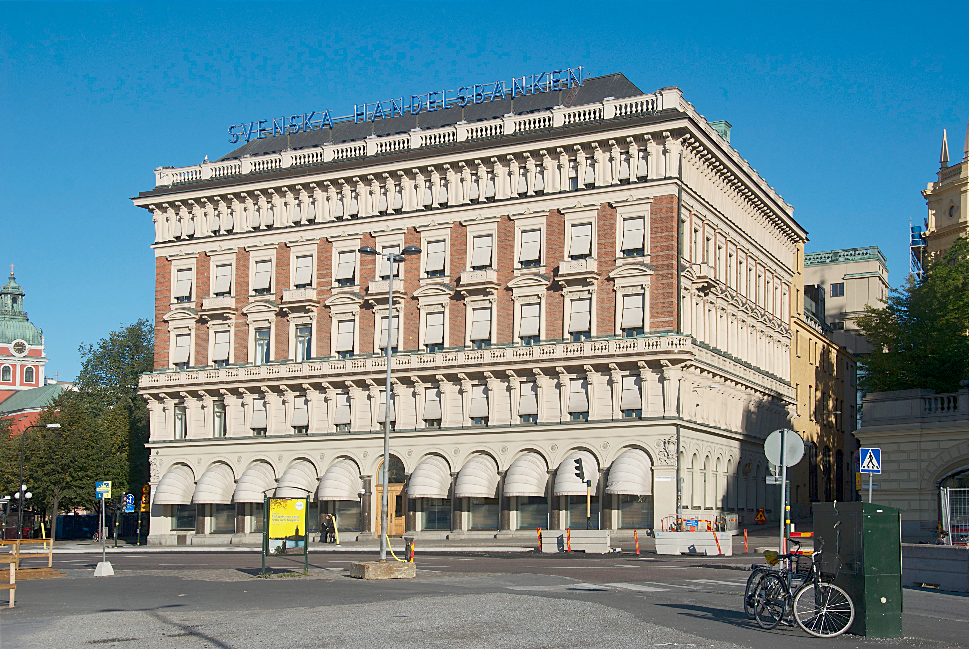 Palmerska huset. Today headquarters for Handelsbanken.